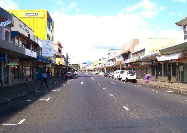 The main road in Lautoka, on a Sunday (church day so no business)